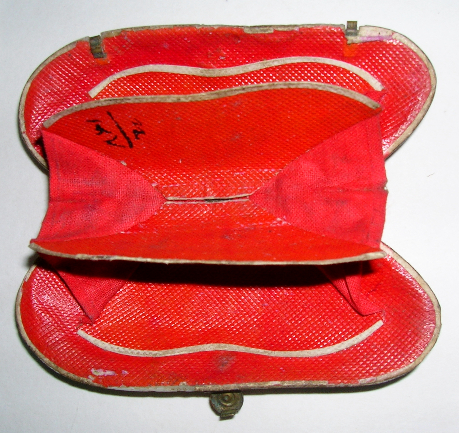 Victorian Mussel Shell Purse showing the red dyed Shark Skin accordion-style interior. Possibly Anodonta species of freshwater mussel.